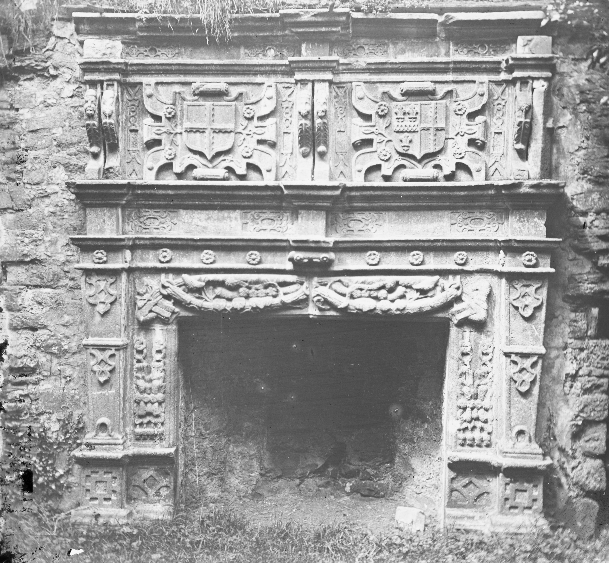 We had a burning desire to find out where this was taken, and we feared our hopes of finding a location for this lantern slide might just go up in smoke. But no, derangedlemur speedily identified our hitherto "unidentified location" as Donegal Castle. Photographer: Joshua H. Hargrave Date: 1895 NLI Ref.: HAR141